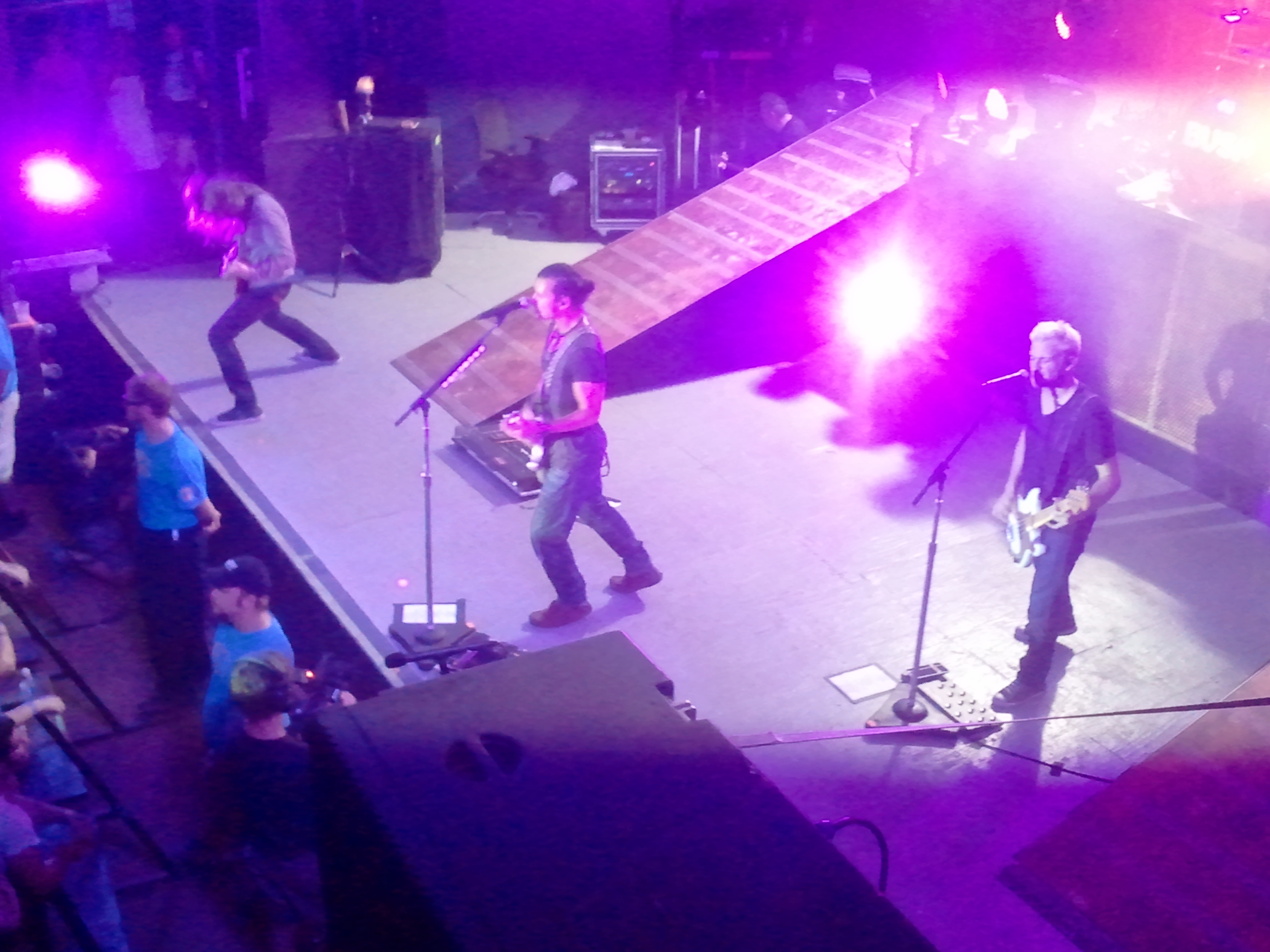 Bush singing in Austin, TX on 8-17-2011